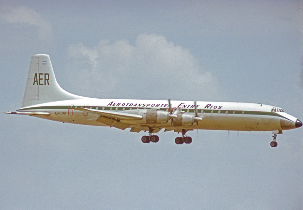 Canadair CL-44 LV-JZB of Aero Transportes Entre Rios of Argentina landing at Miami Airport in 1976.